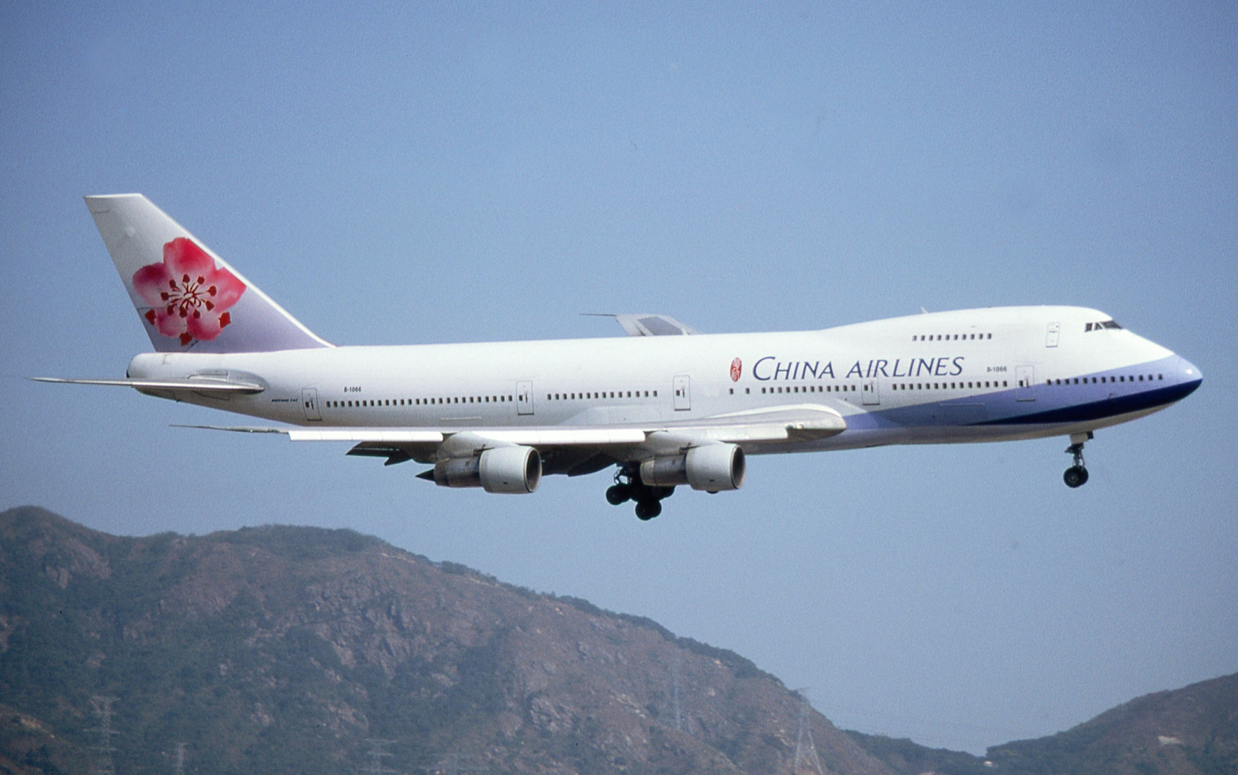 B-1866, A Boeing 747-200 landing at Kai Tak Airport in 1996. The same aircraft was written off as China Airlines Flight 611